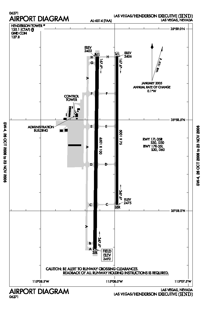 FAA airport diagram for HND (Henderson Executive Airport) in Nevada, United States.